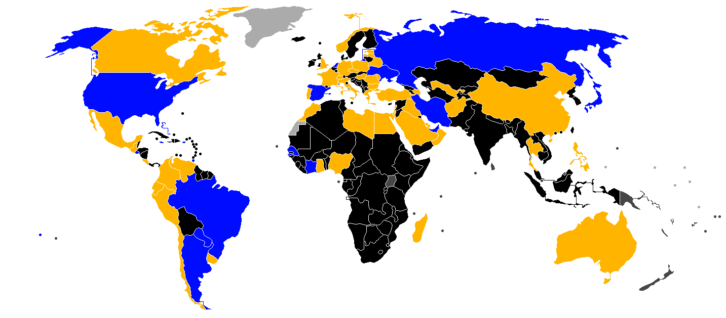 Status of countries involved in the 2013 FIFA Beach Soccer World Cup.